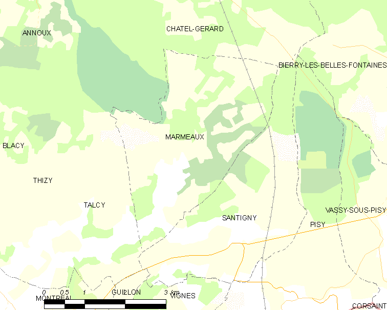 Map of French municipality Marmeaux